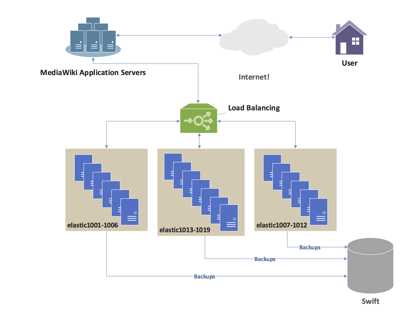 Diagram of the Wikimedia Elasticsearch cluster as of August 2014. It shows the basic route for traffic from the user to the cluster via load balancing, with backups in Swift.